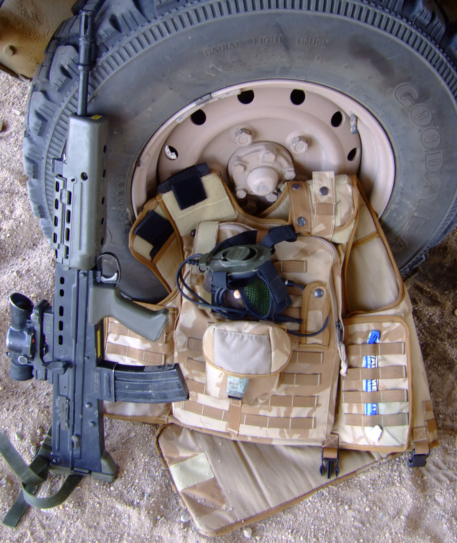 Osprey body armour next to an SA80A2 rifle. Fitted to the armour is the issue medical pouch, and a Marconi Personal Role Radio (PRR). No collar or arm protectors are fitted to the vest in the picture.